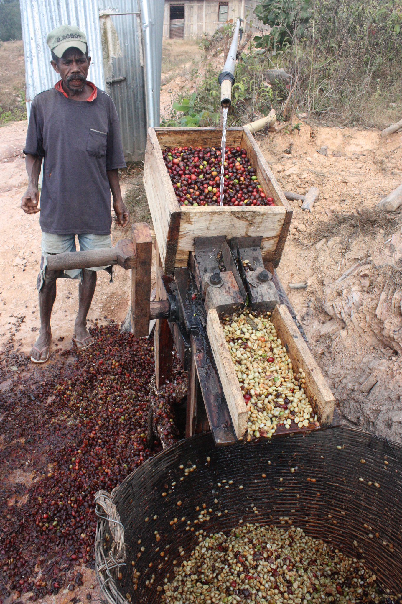 Timor-Leste: District Ermera, Subdistrict Letefoho, Suco Goulolo. Coffee being processed.